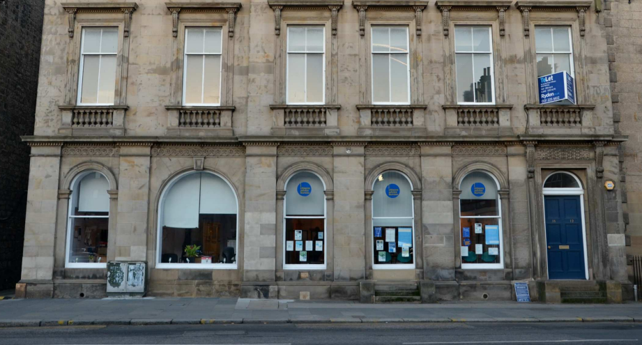 external image of leith citizens advice bureau in Edinburgh, taken in 2015.